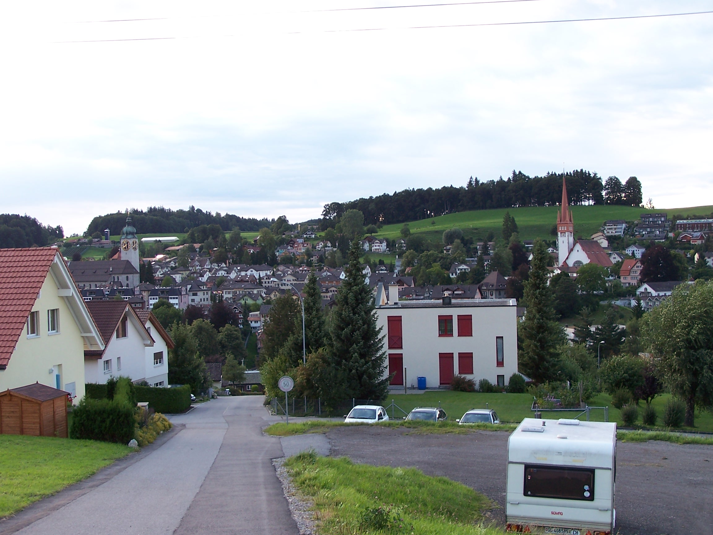 Picture of Degersheim, with both churches clearly visible.